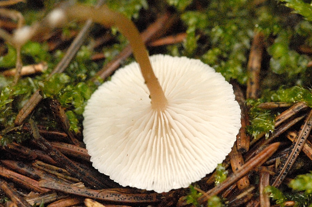 Collybia tuberosa from Commanster, Belgium. If you think this is a different taxon, please contact James Lindsey.